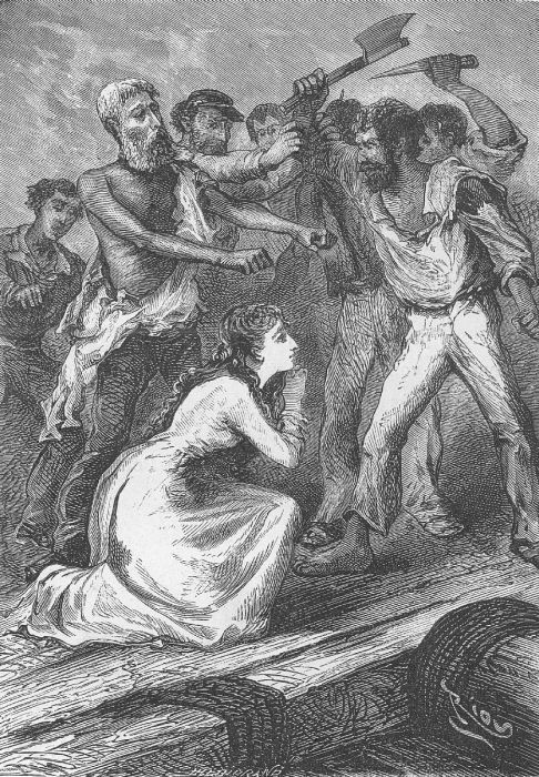 An ilustration from the novel "The Survivors of the Chancellor: Diary of J. R. Kazallon, Passenger" by Jules Verne drawn by Édouard Riou.